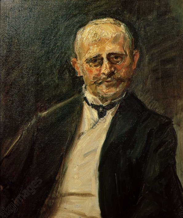 Portrait of art historian Hans Rosenhagen Oil on canvas, 76.4 × 62.5 cm. Max Slevogt Gallery, Edenkoben, Villa Ludwigshöhe